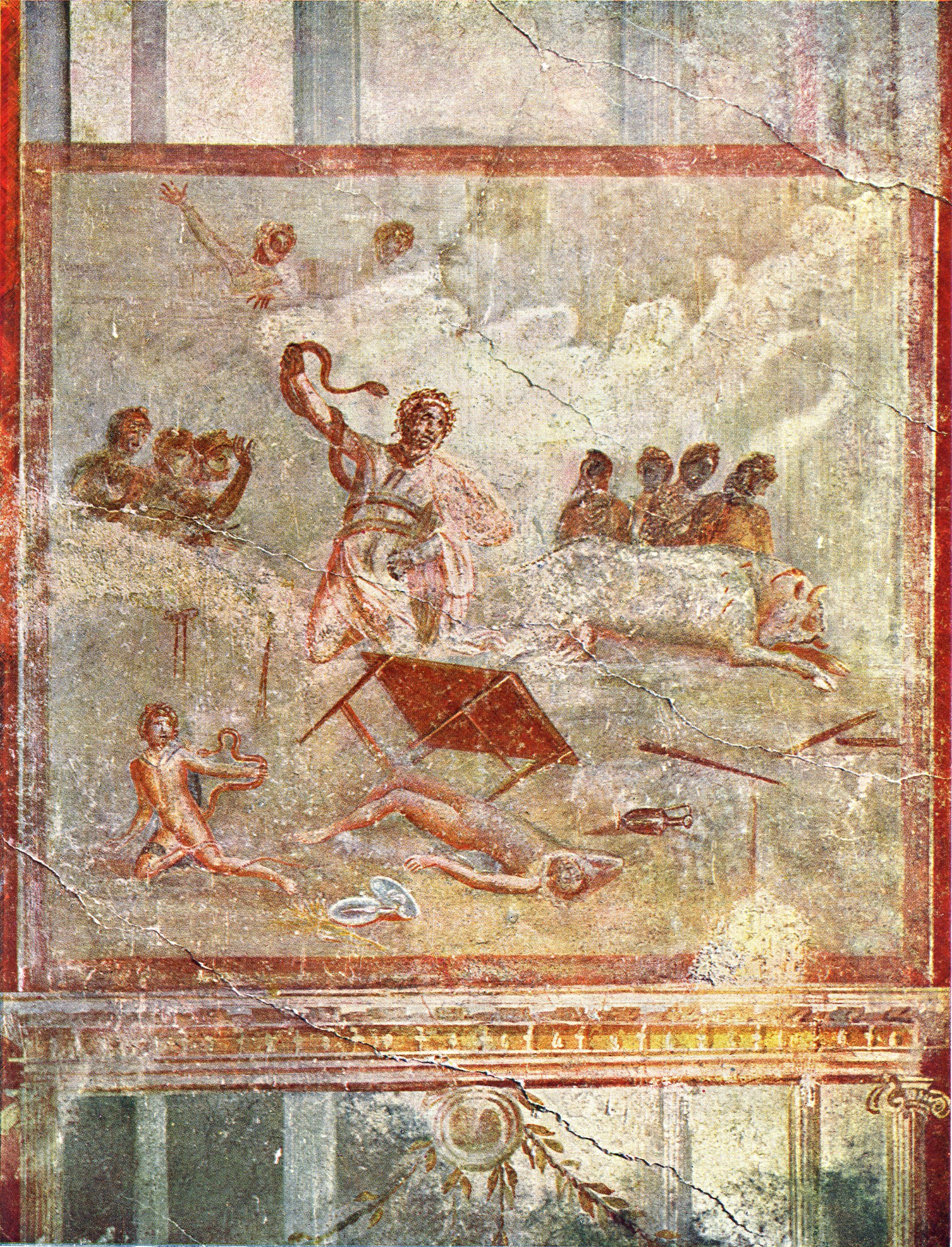 Pompeii, Casa del Menandro, atrium a, Laocoon